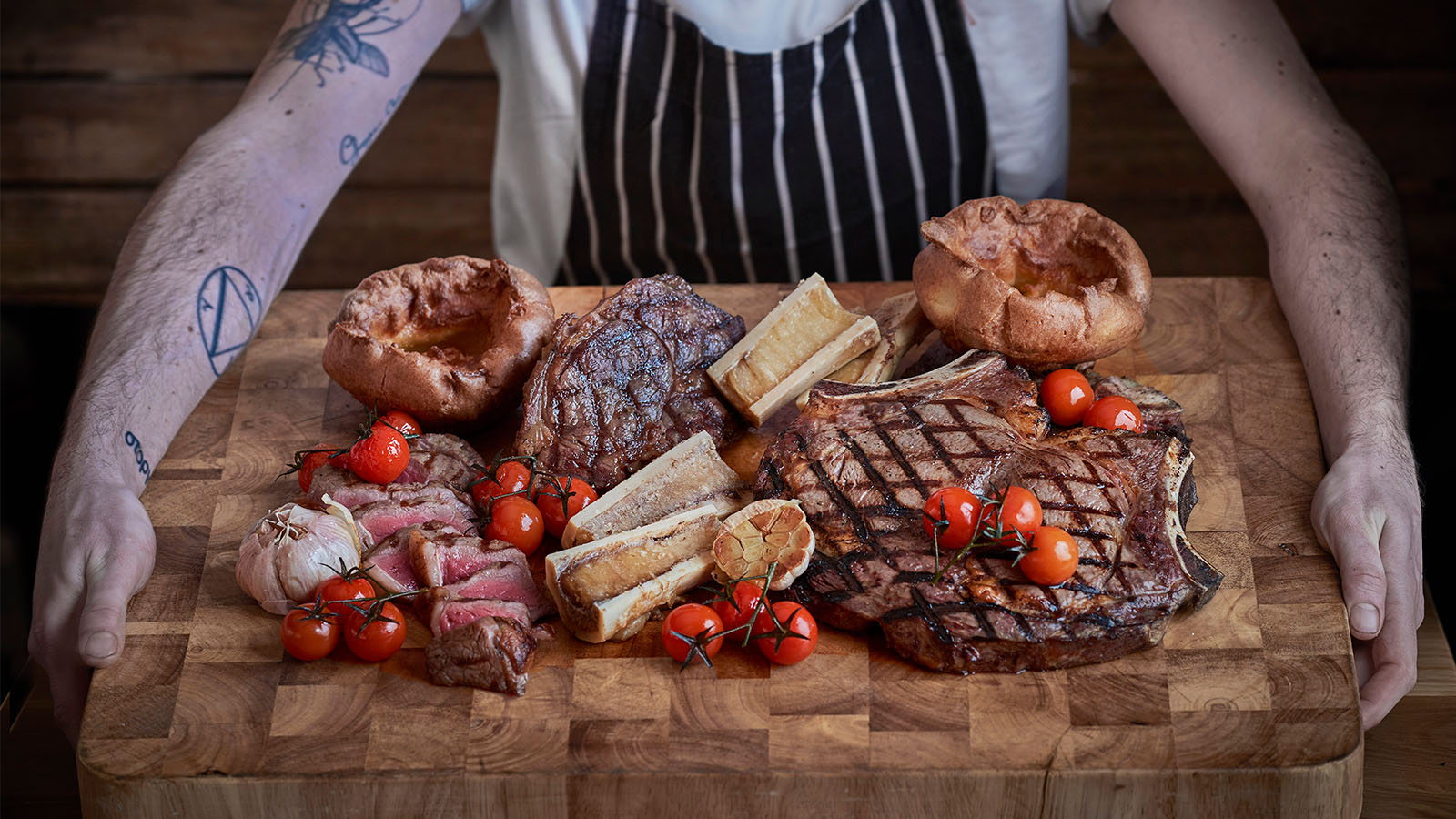 Steak board